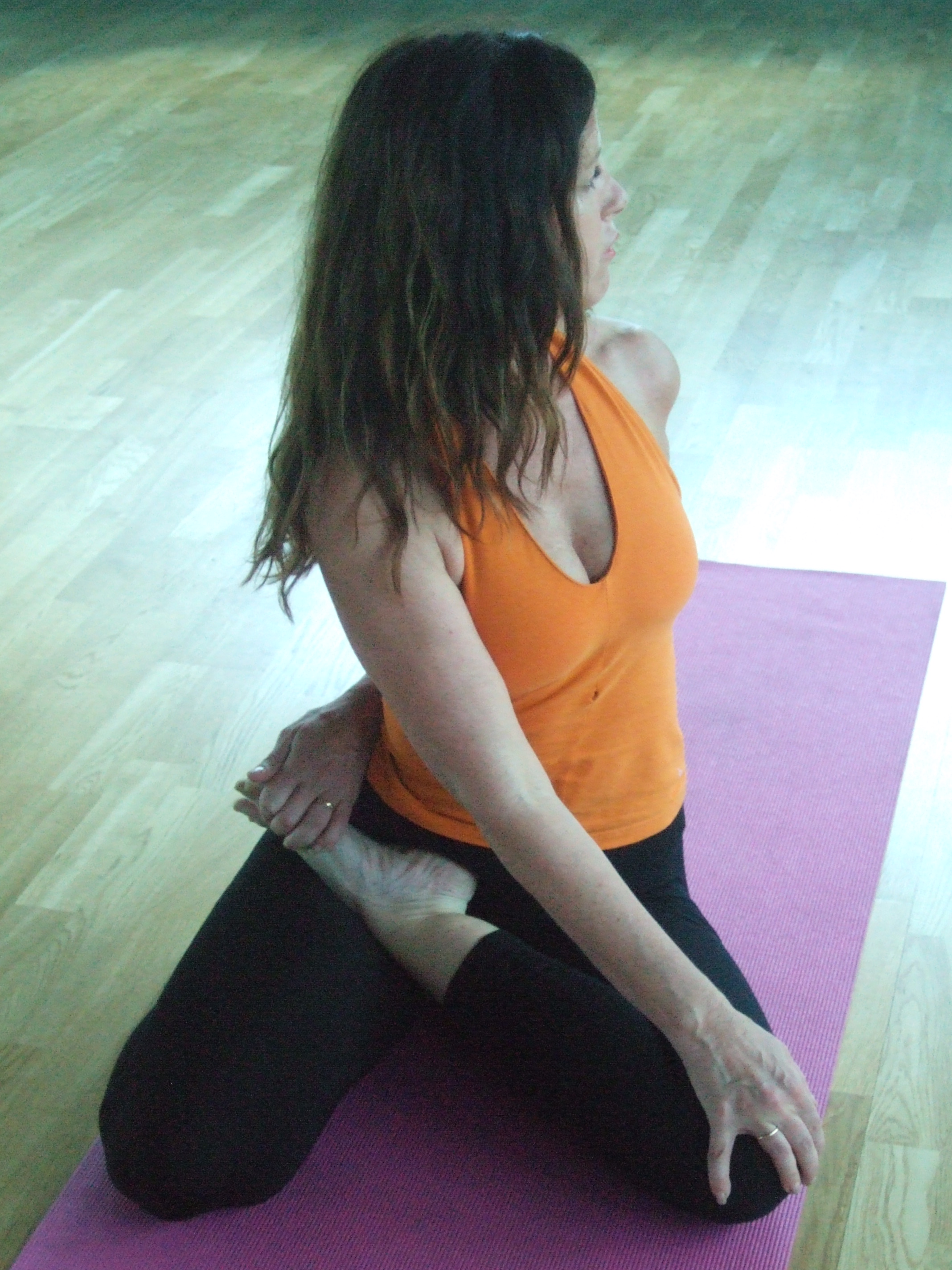 A women in a variation of the Bharadvājāsana yoga position